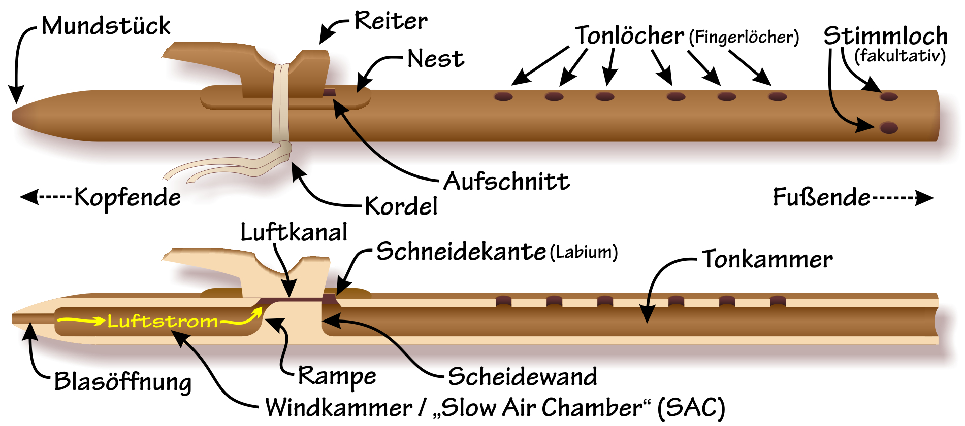 Native American Flute Anatomy with German-language tags